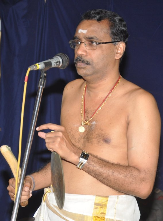 Kathakali Singer Pathiyur Sankarankutty